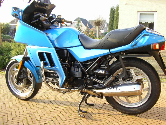 BMW K75RT build in 1994. VIN:0370960. silkblue,Code 690. owner Erik Prins, NL